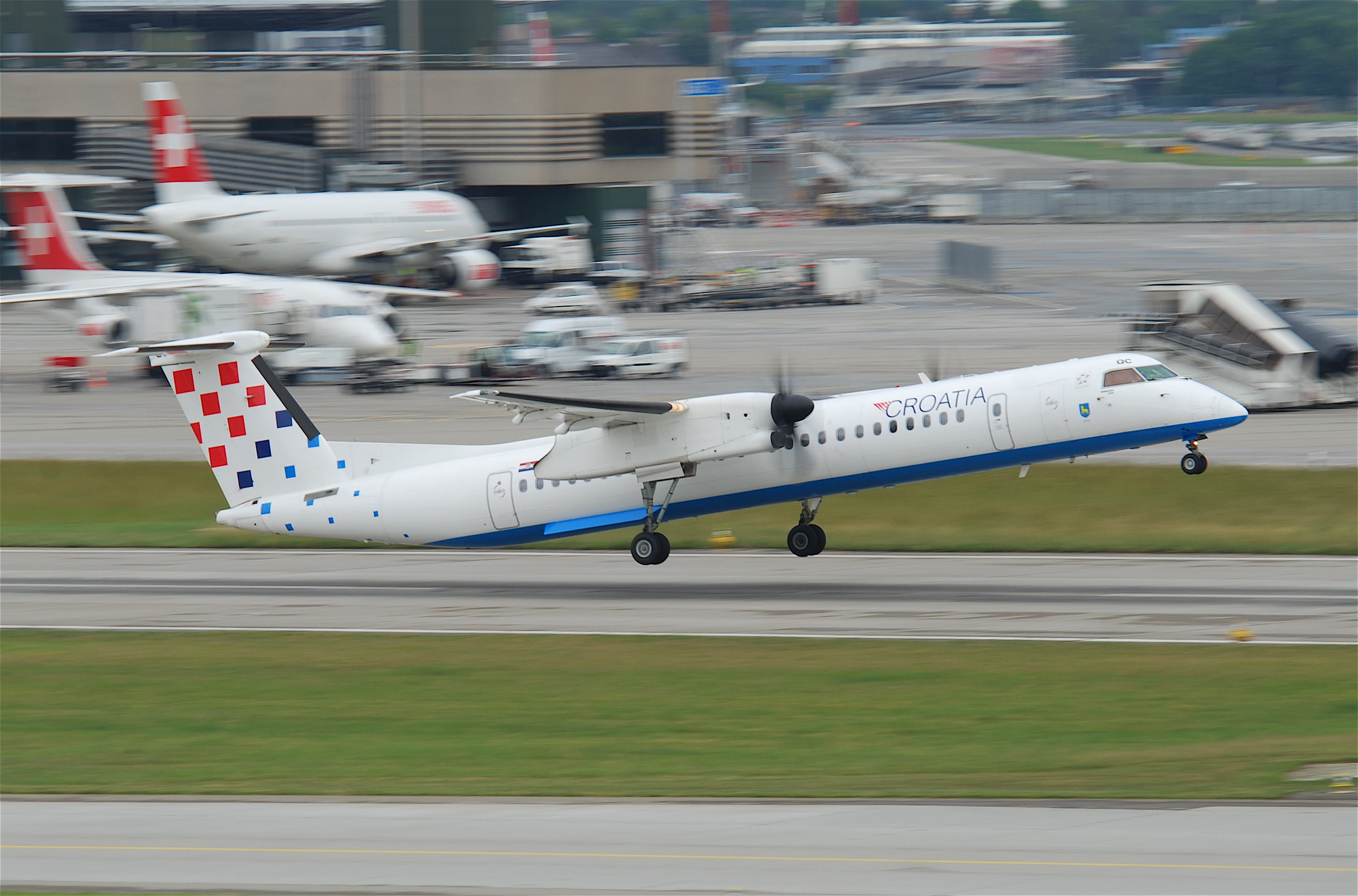 Croatia Airlines DHC-8-400 Dash 8; 9A-CQC@ZRH;27.05.2011/598dz